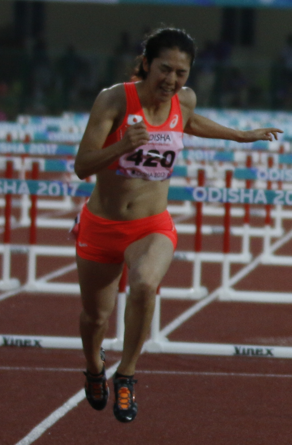 from the 22nd Asian Games in Odisha. 2017 Asian Athletics Championships. 6 to 9 July 2017 at the Kalinga Stadium in Bhubaneswar